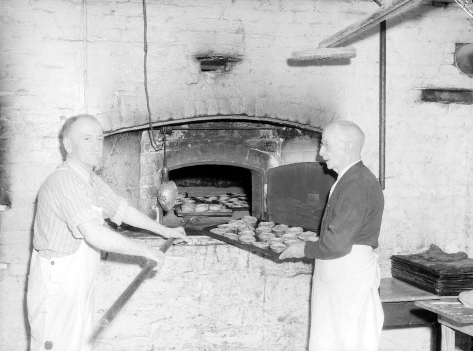 James P. Lloyd and Mr. Neville put in the oven stone plates filled cakes. The Mr. Lloyd bakery is located at 854 Wellington Street in Verdun.